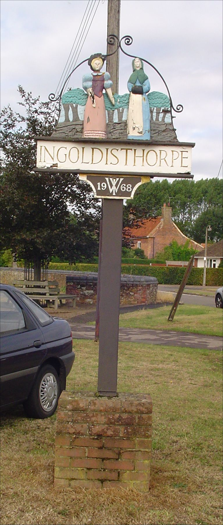 Signpost in Ingoldisthorpe